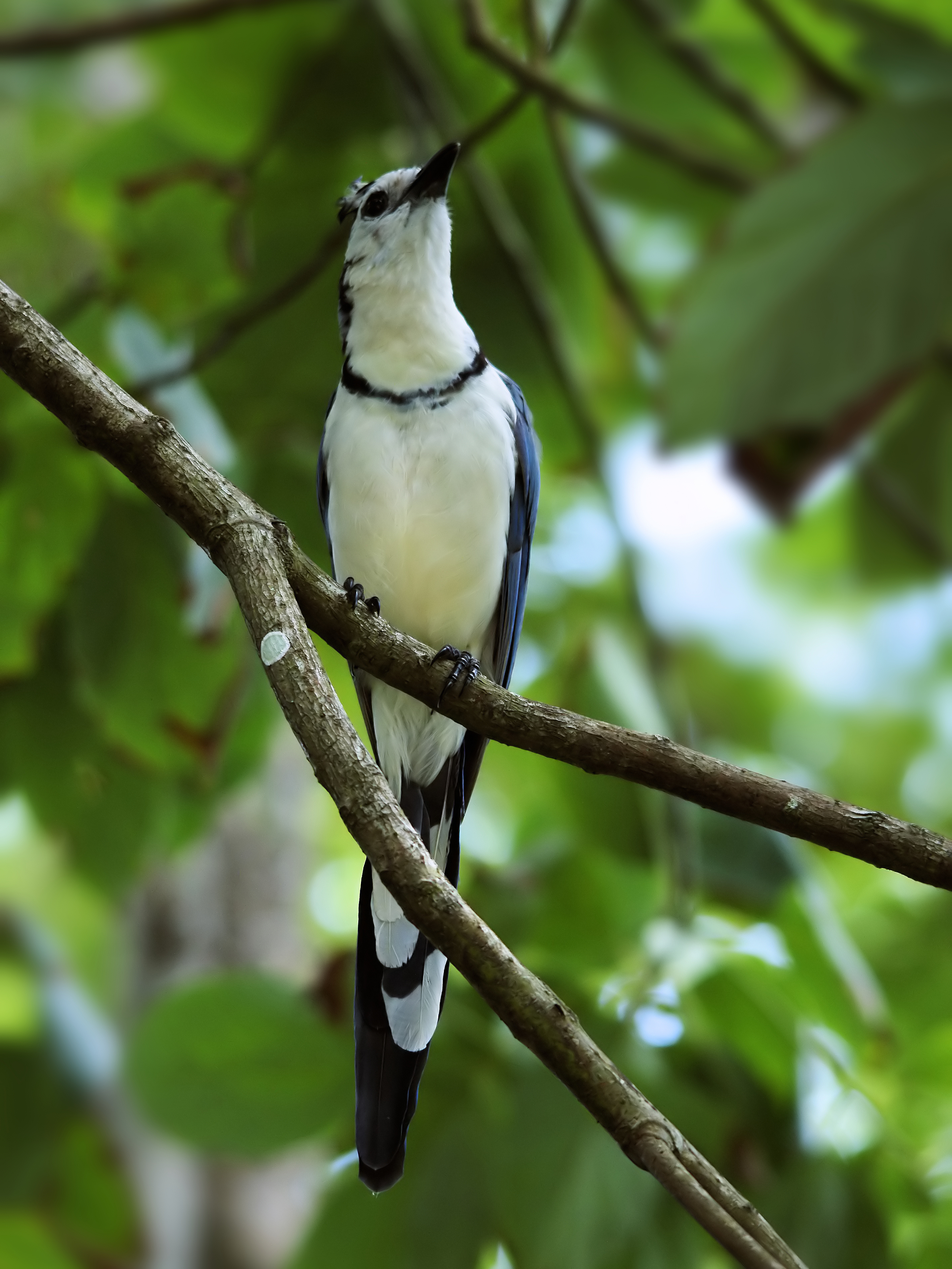 White-throated Magpie-jay at Montezuma on the Nicoya Peninsula, Costa Rica